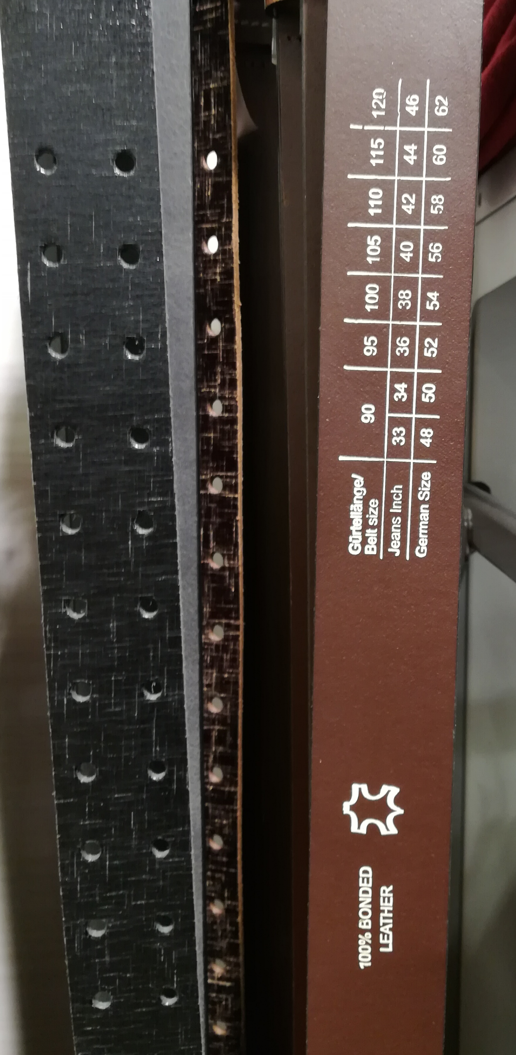 Bonded Leather sign and Size